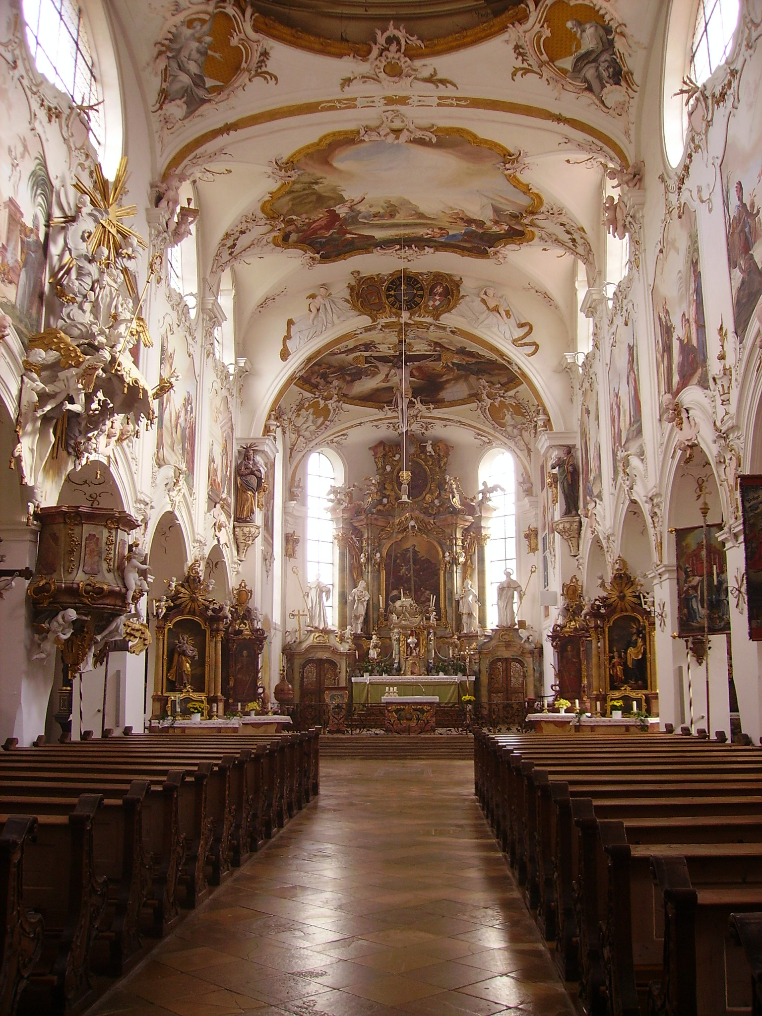 Nave of Gutenzell Monastery Church Sts. Cosmas & Damian, Gutenzell-Hürbel